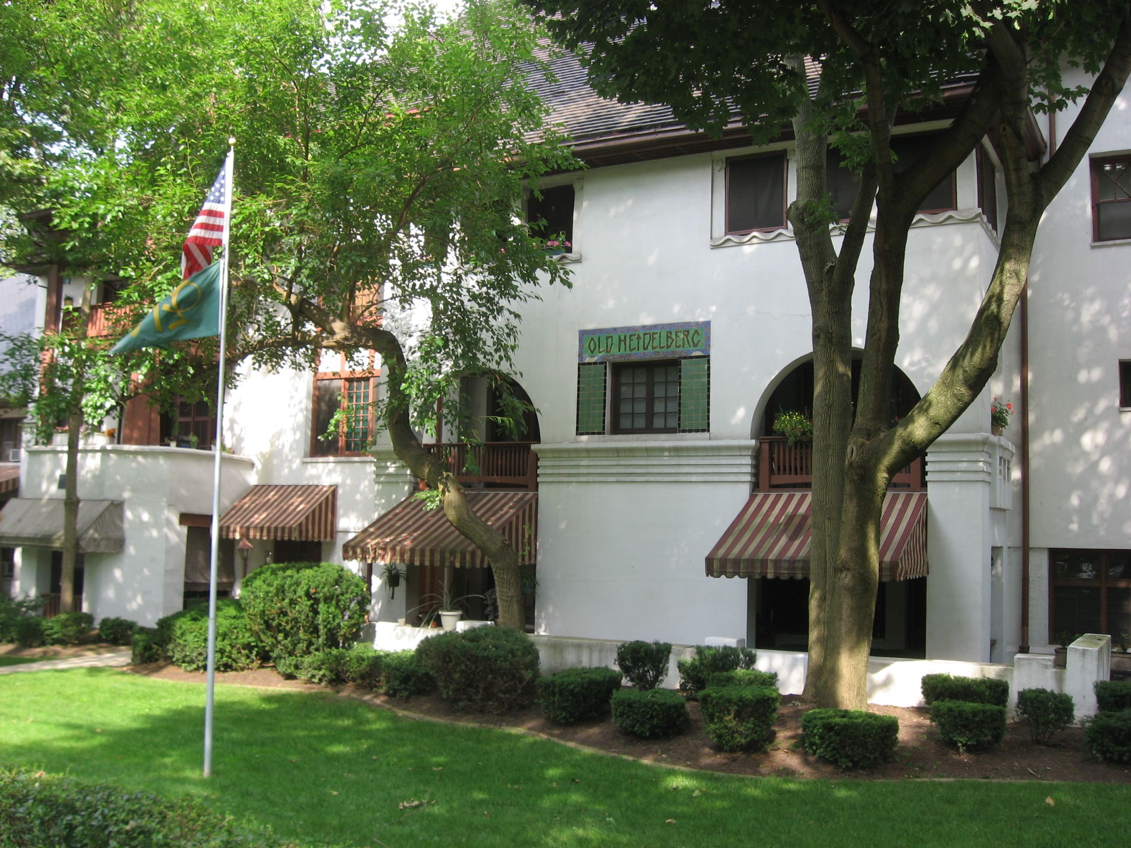 View of the Old Heidelberg Apartments, a National Register of Historic Places site in the Point Breeze neighborhood of Pittsburgh, Pennsylvania, United States. Address 400 S. Braddock Ave.